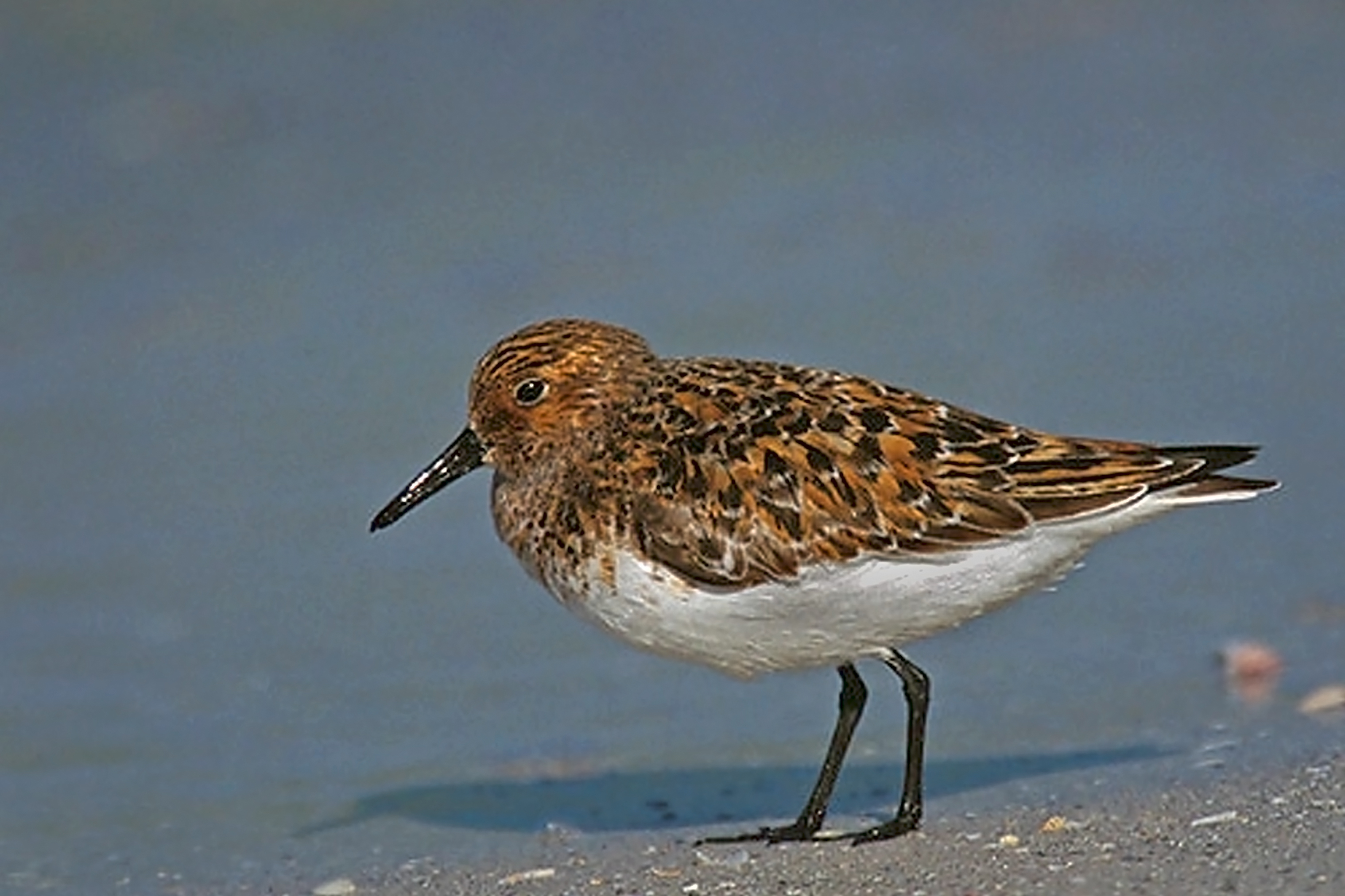 Sanderlings are gray and white when not mating; this image is the mating plumage of spring and summer.